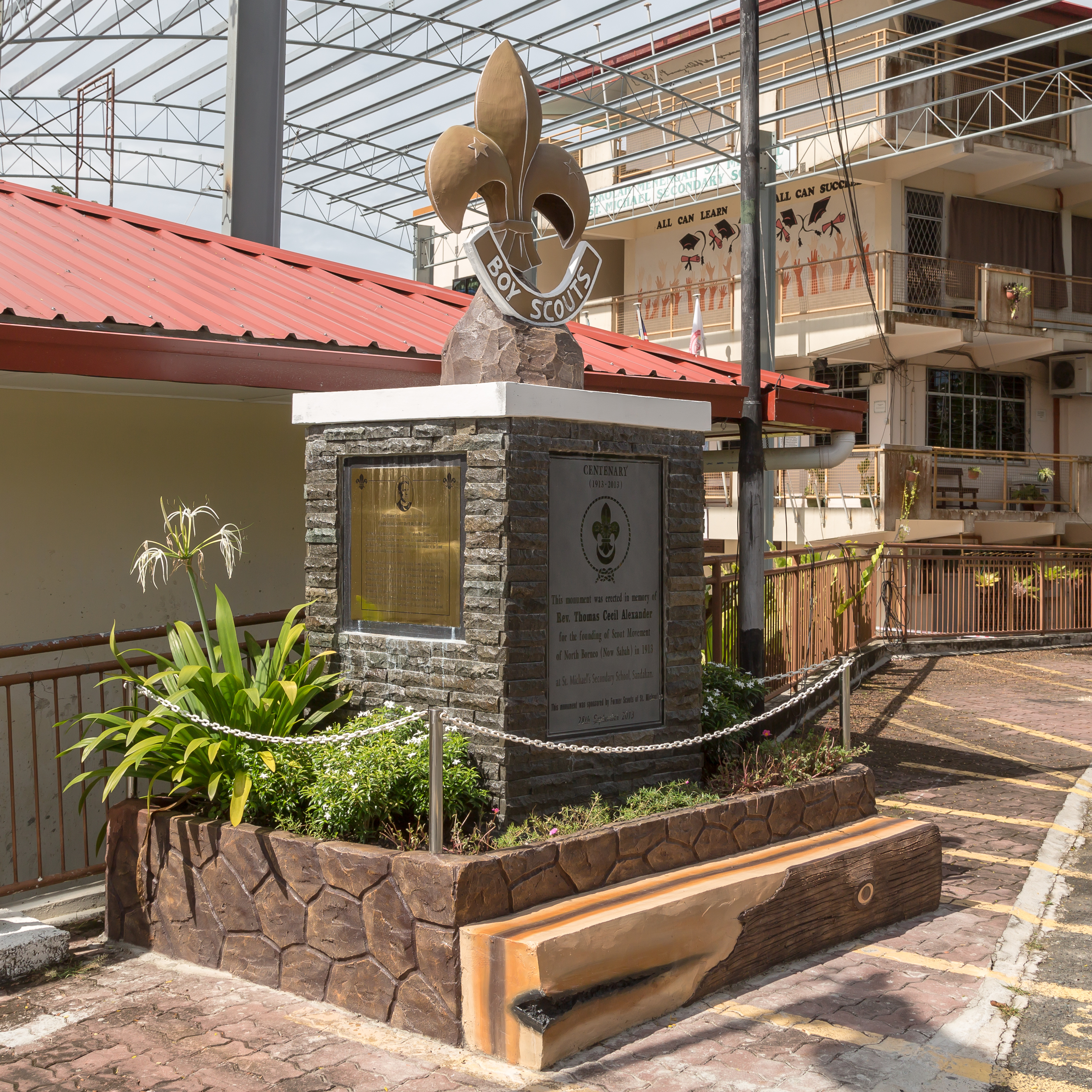 Sandakan, Sabah: North Borneo Scout Movement Monument. The centenary monument of Scout Movement if North Borneo was erected in memory of Rev. Thomas Cecil Alexander at St. Michael's Secondary School Sandakan and unveiled September 28, 2013